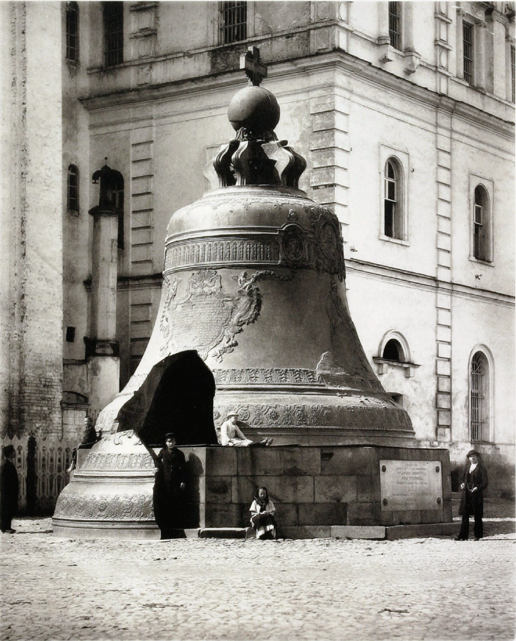 Plate 32: Tsar bell.